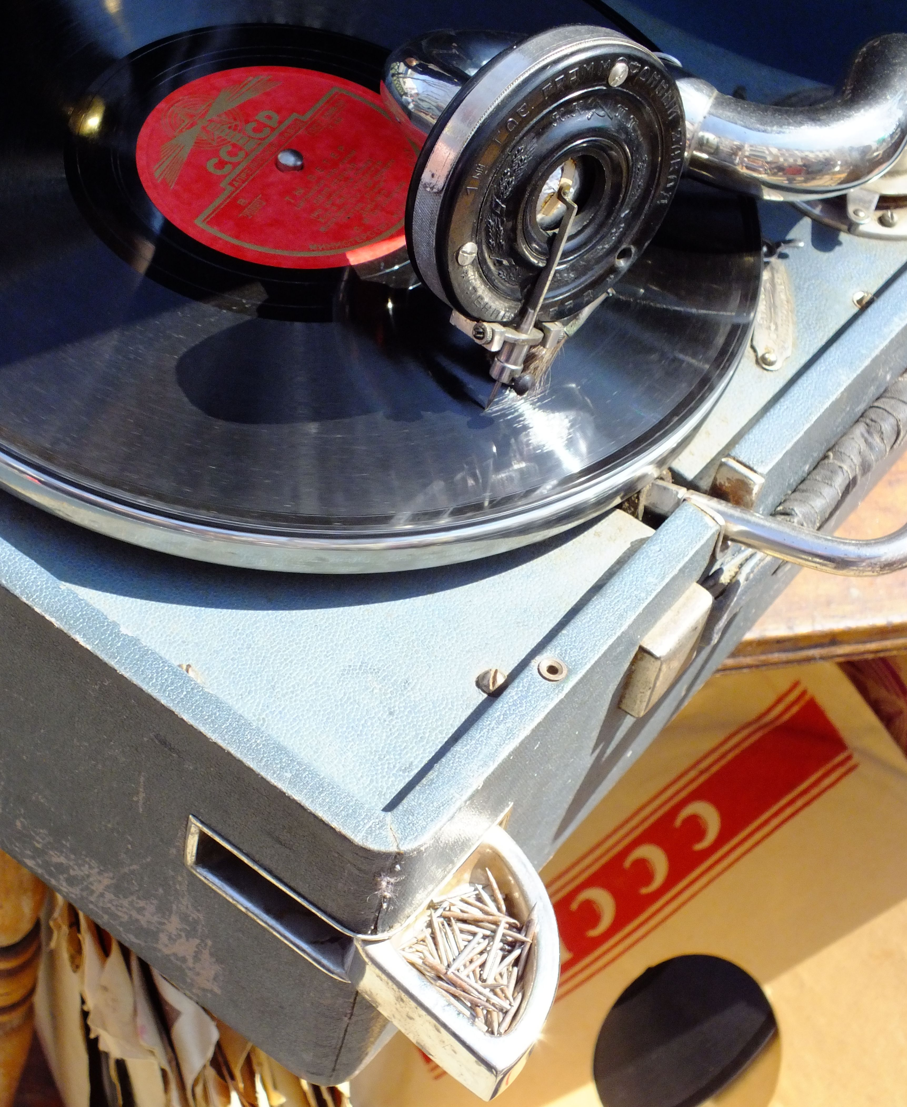 Phonographs